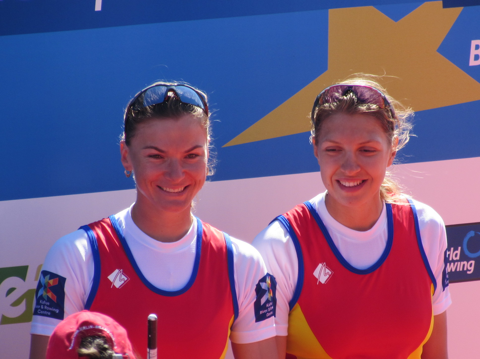 Mădălina Bereș (right) and Laura Oprea (left) at the 2016 European Rowing Championships in Brandenburg an der Havel, Germany